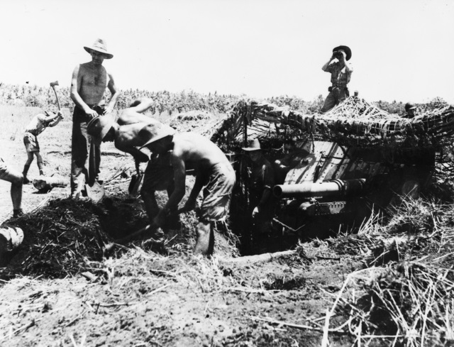 AWM caption: 1943-01-08. BUNA. A 25 POUNDER BEING CAMOUFLAGED IN A GUN-PIT FROM WHERE IT CAN SHOOT AT ENEMY PILLBOXES OVER OPEN SIGHTS. AN OFFICER WATCHES FOR ANY MOVEMENT BY THE JAPANESE, SO THAT HE CAN SHOUT A WARNING TO THE GUNCREW. FIRE FROM THE 25 POUNDER WILL BE DIRECTED FROM AN OBSERVATION POST.